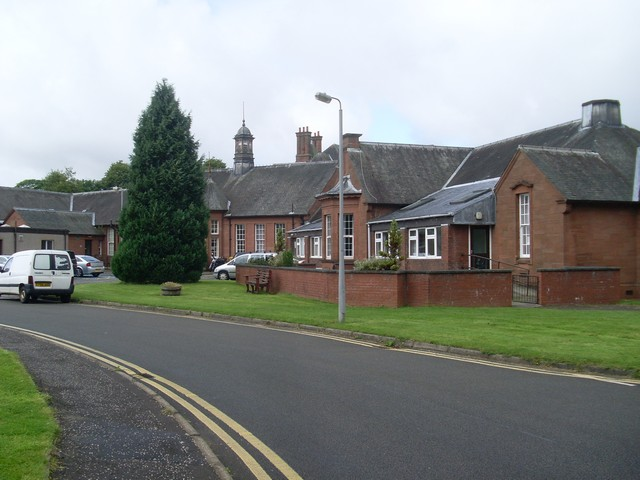 Dykebar Hospital Mental health hospital on the outskirts of Paisley.